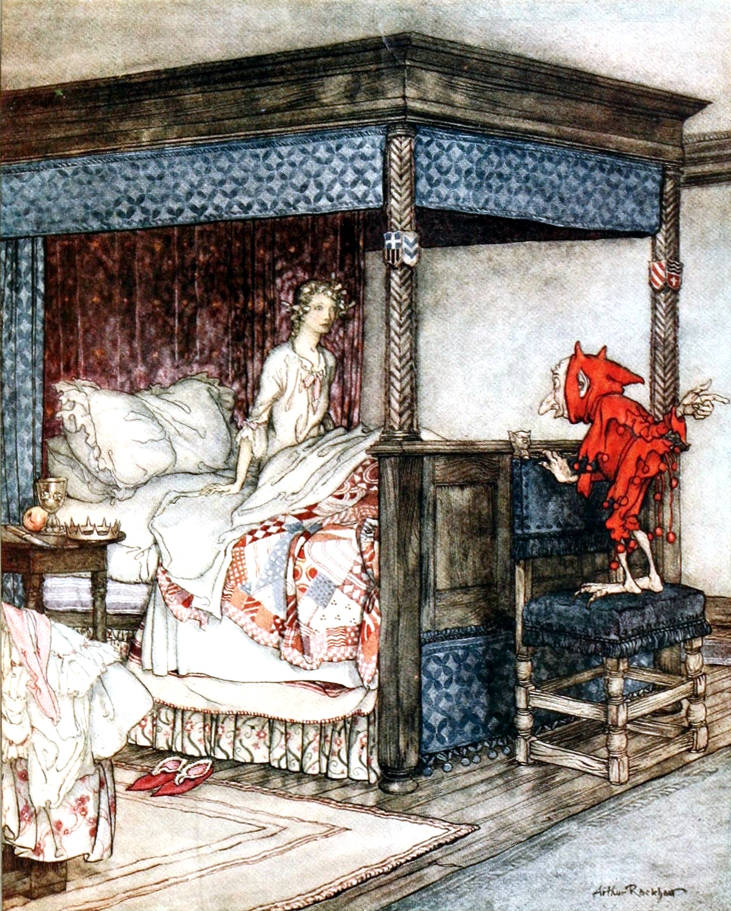 "O Waken, Waken, Burd Isbel". Illustration to the ballad "Young Beckie", from the book Some British Ballads (1919) (link to digitized edition / page), illustrated by Arthur Rackham.